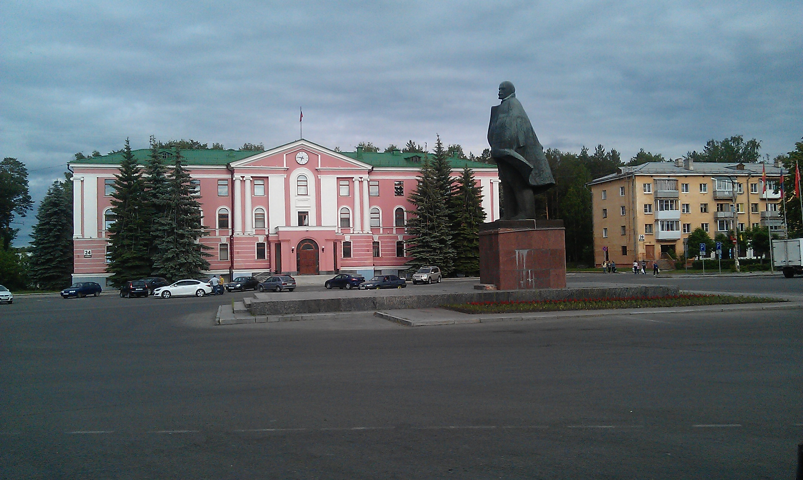 административное здание на площади Ленина (Снежинск)